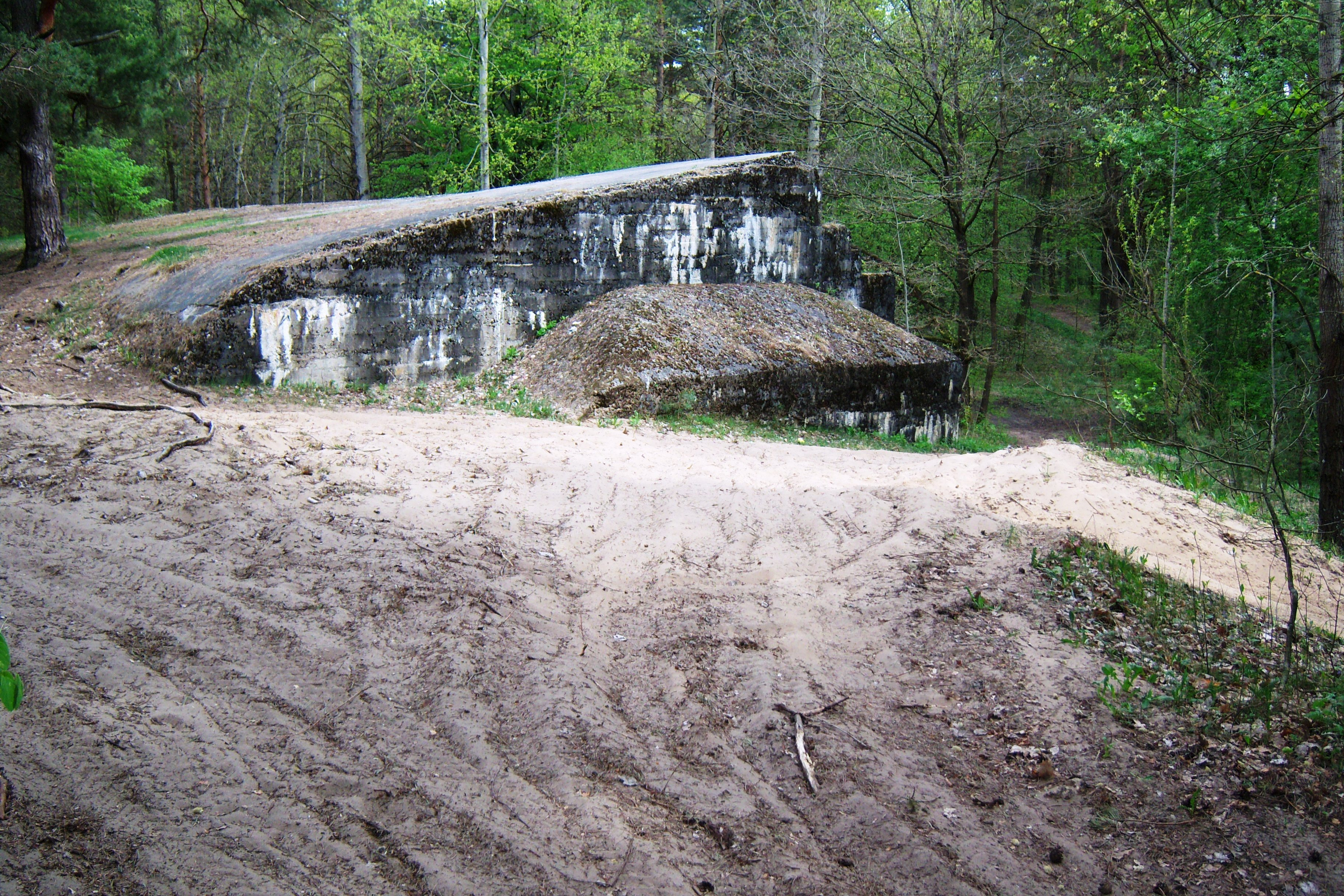 Kaunas Fortress. Romainiai Fort (or X Fort), Lithuania. By the Main Shelter Kategorija: Kauno tvirtovė